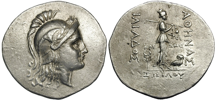 Silver tetradrachm minted by the koinon of Athena Ilias when Zoilos son of Kleon was the presiding agonothetes c. 165–150 BCE. Obverse: head of Athena in Attic helmet. Reverse: cult statue of Athena Ilias with spear in hand facing right with the control marks of a caduceus (left) and owl (right) and the inscription "ΑΘΗΝΑΣ ΙΛΙΑΔΟΣ, ΚΛΕΩΝΟΣ ΖΩΙΛΟΥ", translated as "Athena Ilias, Zoilos son of Kleon".